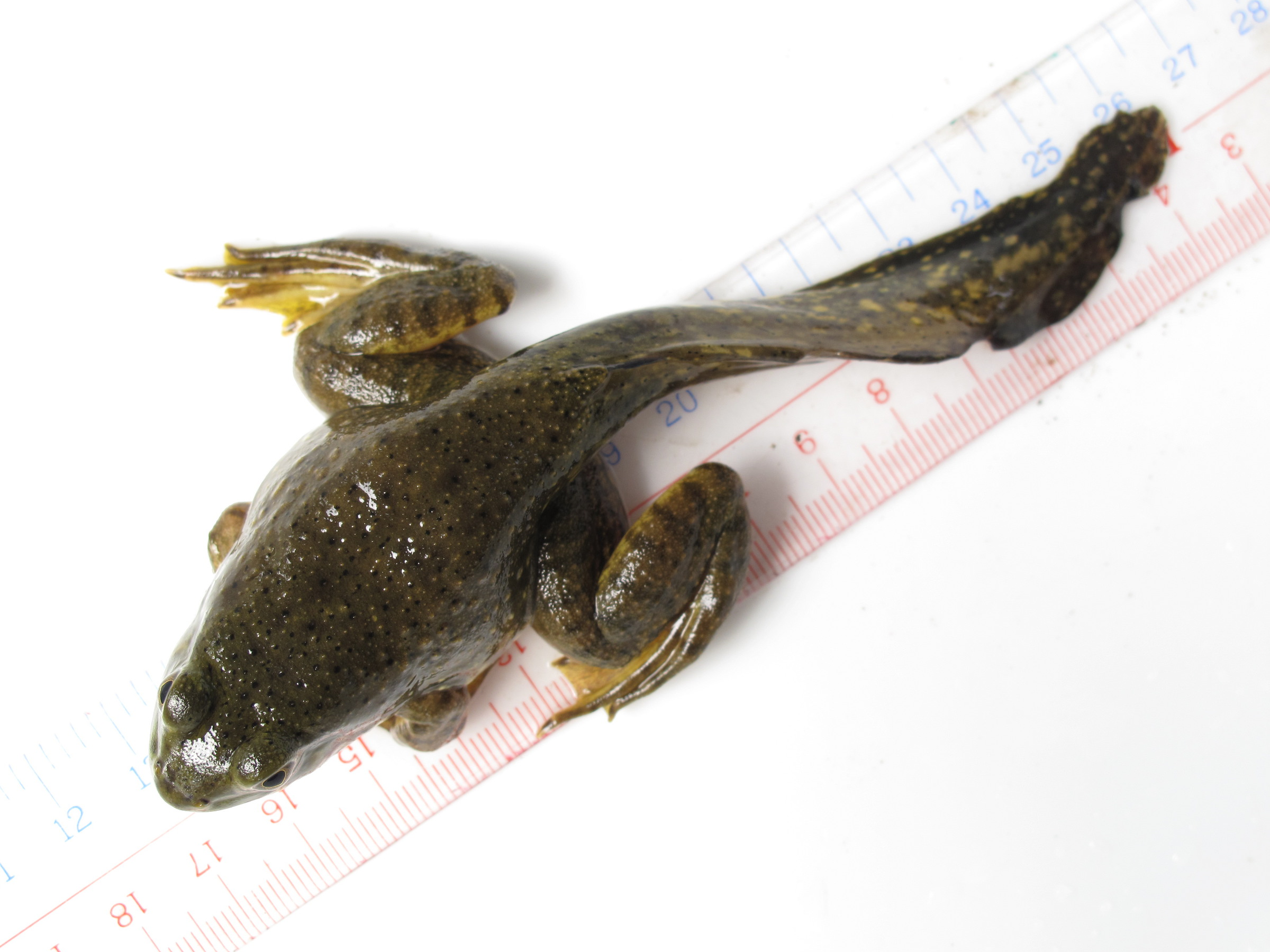 Juvenile american bullfrog, Rana catesbeiana with a centimeter scale